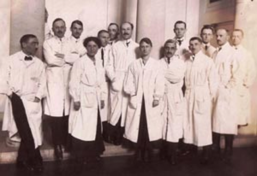 Picture from 1917–1920: Charlotte Landé, M. D. (fourth from the left) with her colleagues at Kaiserin-Auguste-Viktoria-Haus in Berlin, where she was employed between 1917 and 1920.